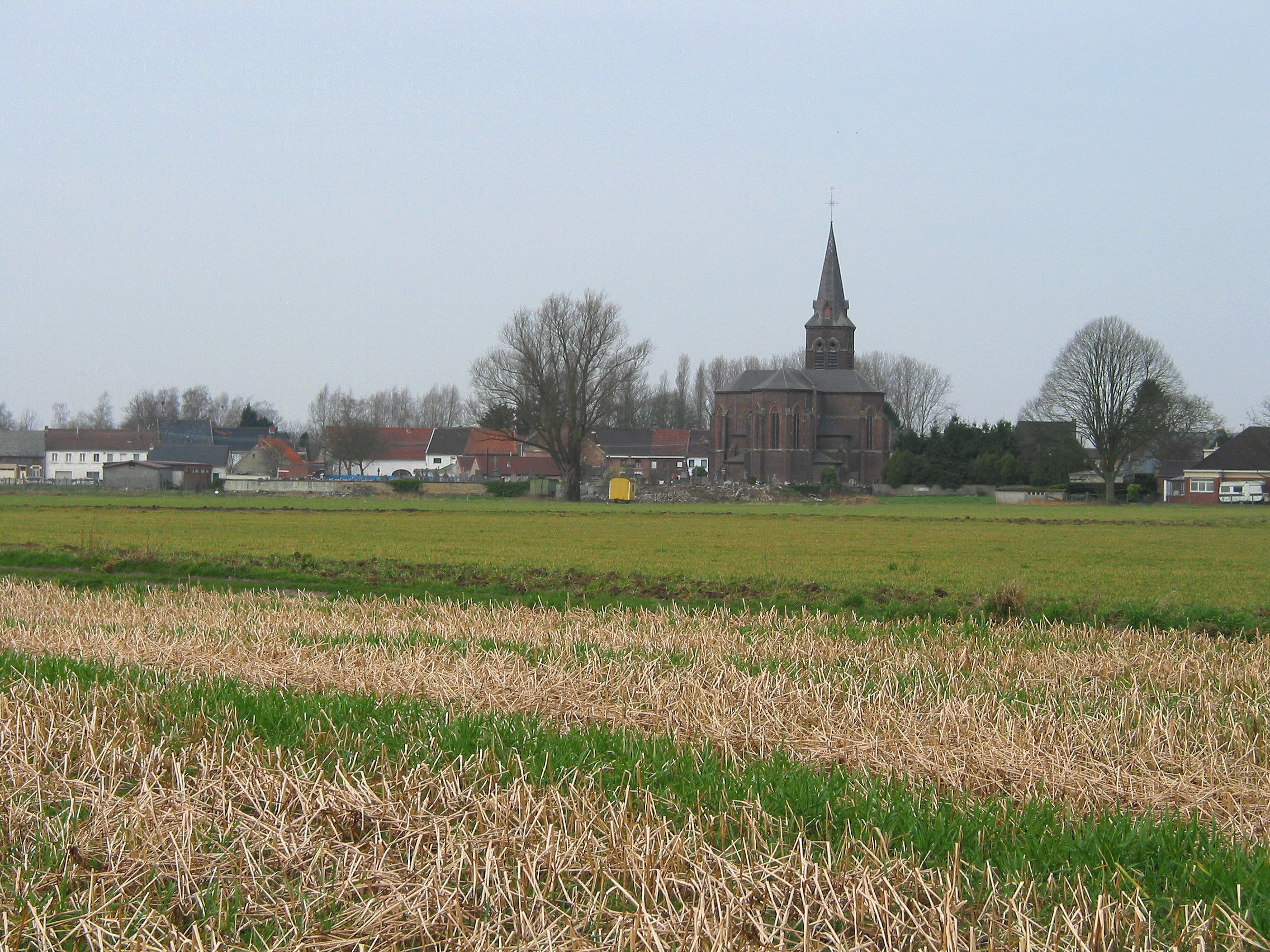 Bernissart (Belgium), the city of the iguanodons.